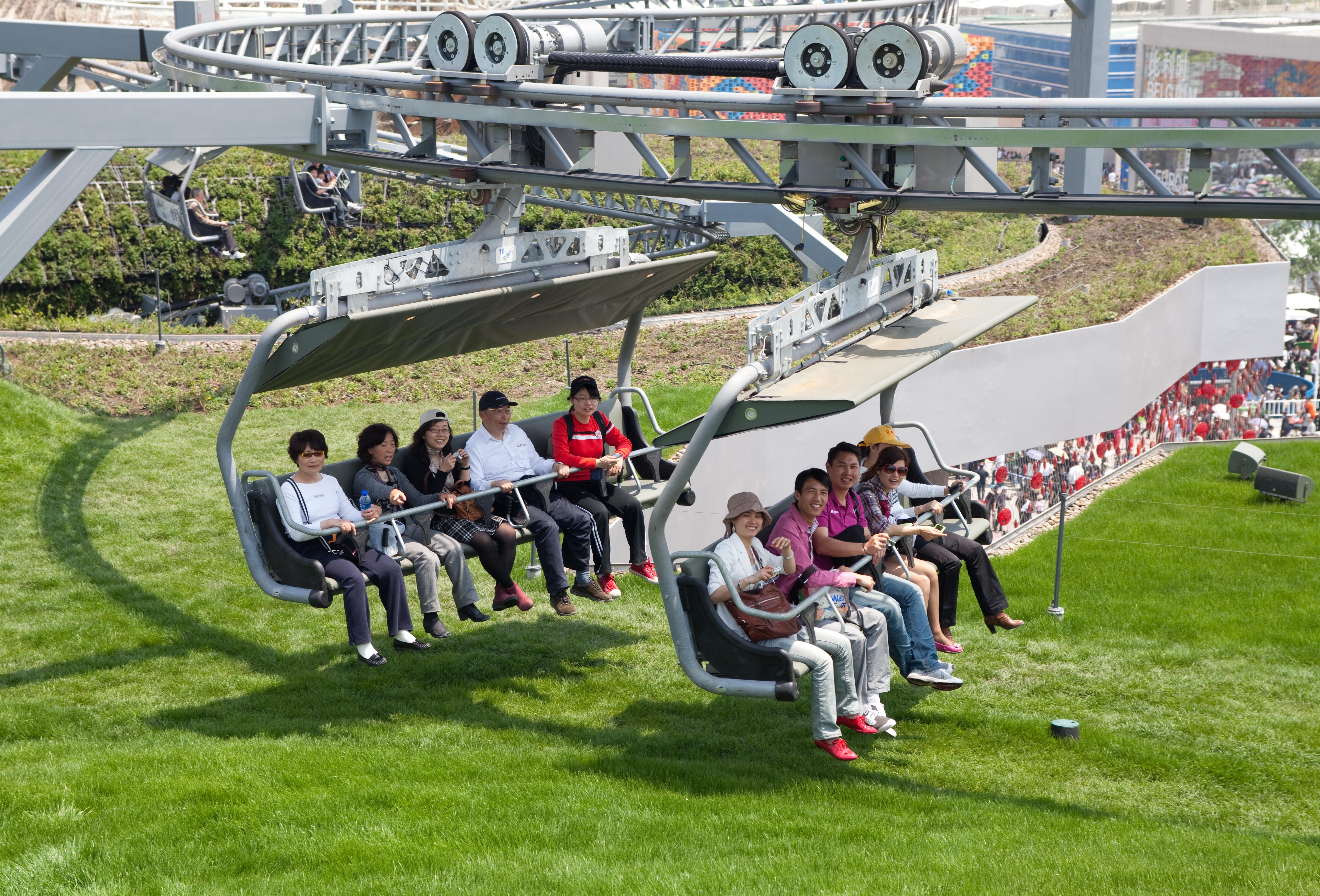 Swiss Pavilion Expo 2010 Shanghai: Chair lift over the roof of the Swiss pavilion on the opening day